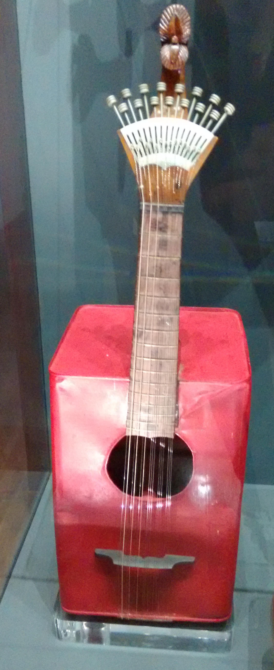 Portuguese Guitar on display at the Museum of Portuguese Music, Estoril, Lisbon District, Portugal